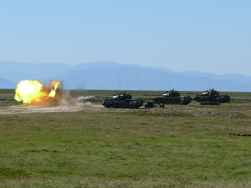 T-55 tanks from the 631st Tank Battalion during an exercise.